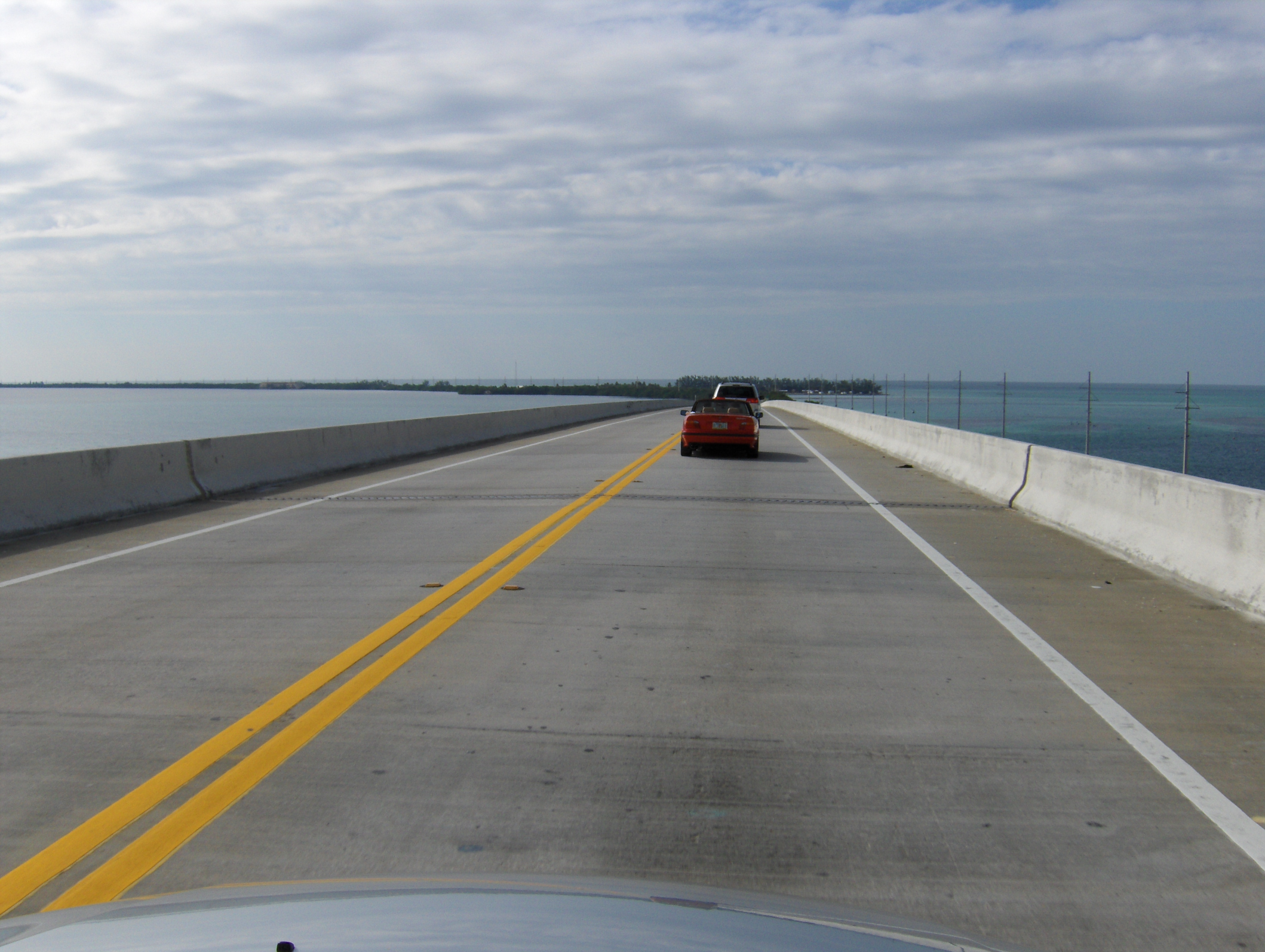 One of the many bridges between Key Largo and Key West.